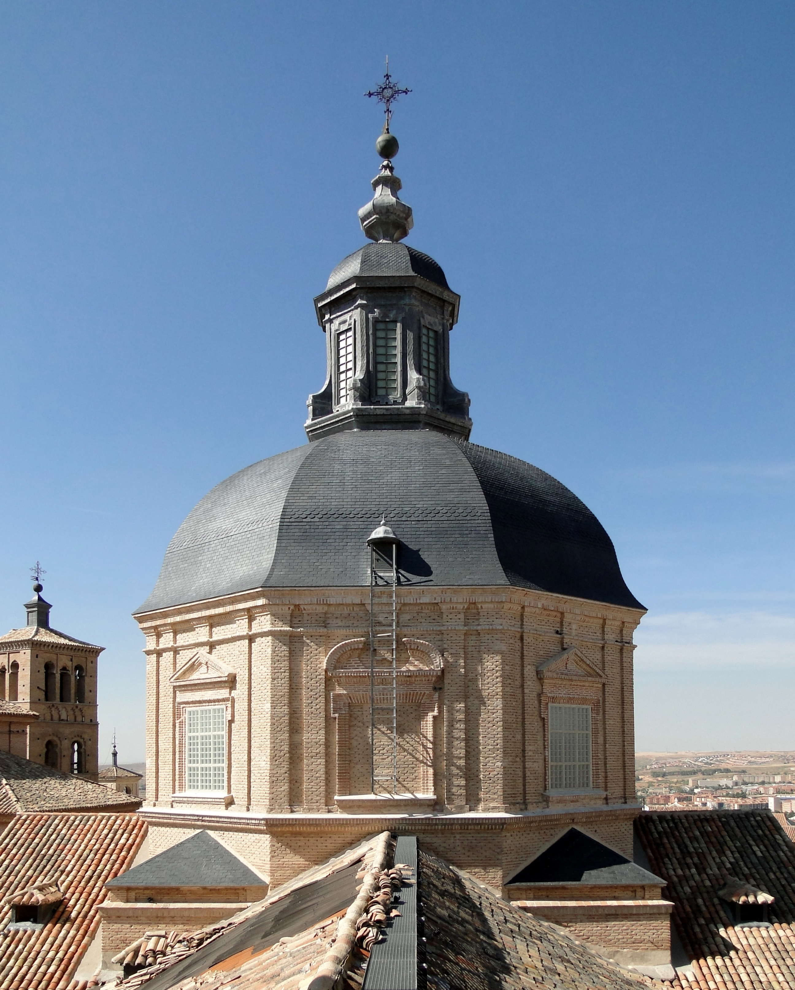 Church of San Ildefonso, Toledo, Spain